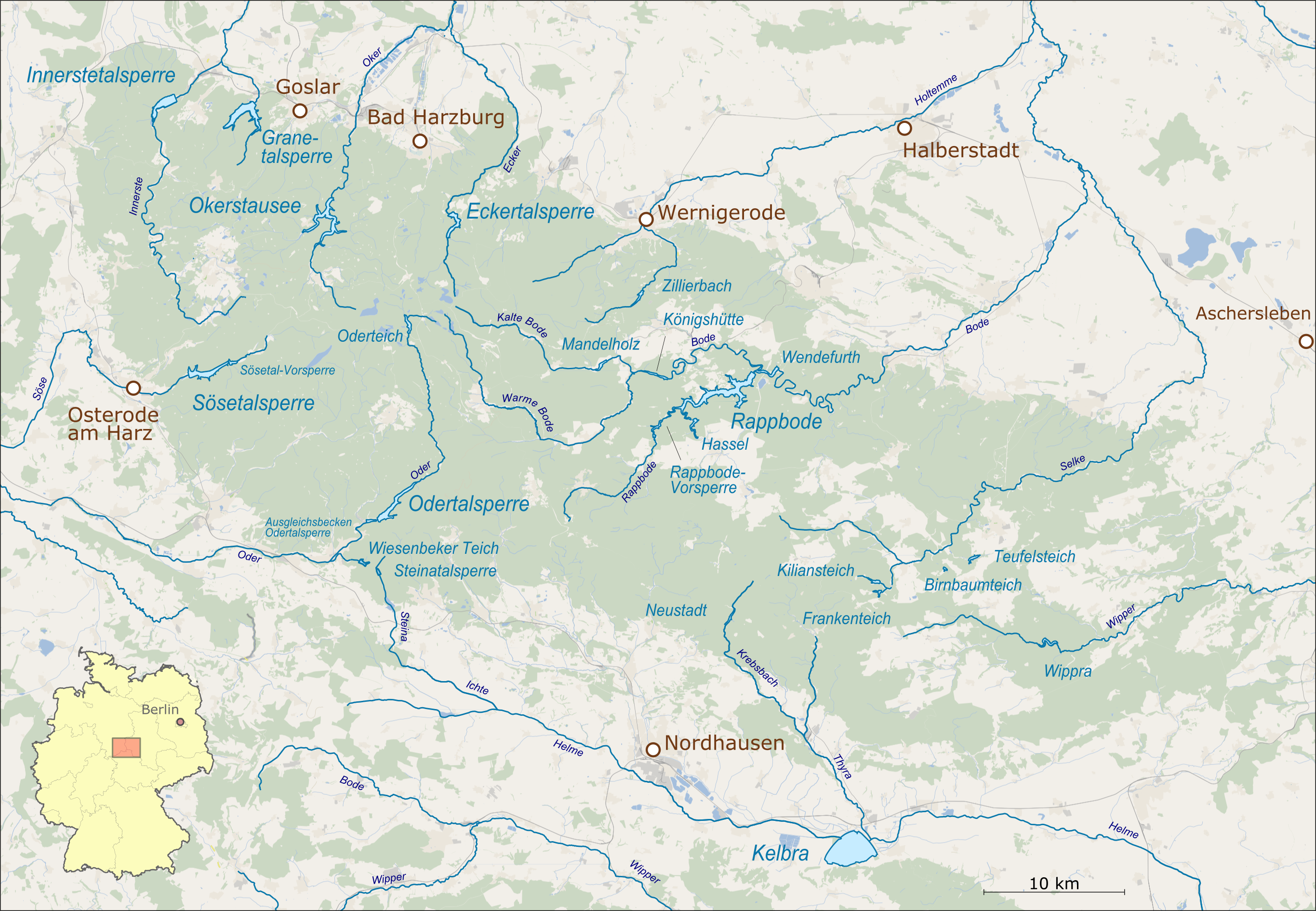 Reservoirs in Harz